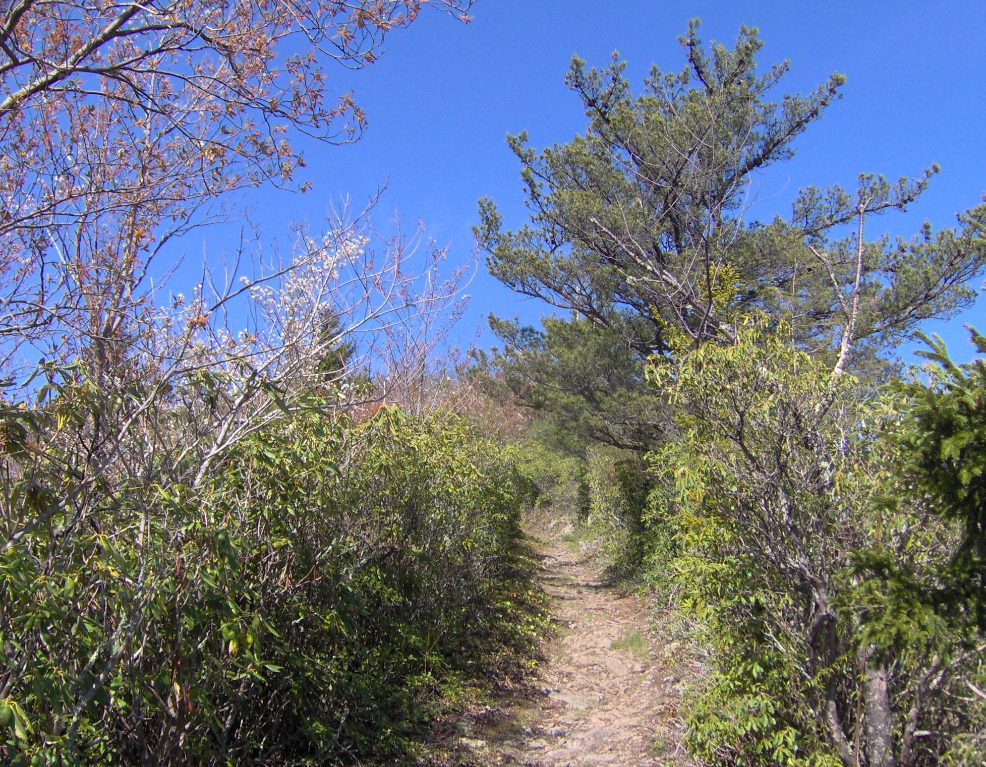 The Snake Den Ridge Trail ascending the crest of Snake Den Ridge in the Great Smoky Mountains National Park, in the southeastern United States. Tree at right side of trail is Pinus pungens, with Picea rubens foliage at the extreme right. The ridgetops are too narrow and the soil is often too acidic to support large wooded plants, paving the way for rhododendron thickets.